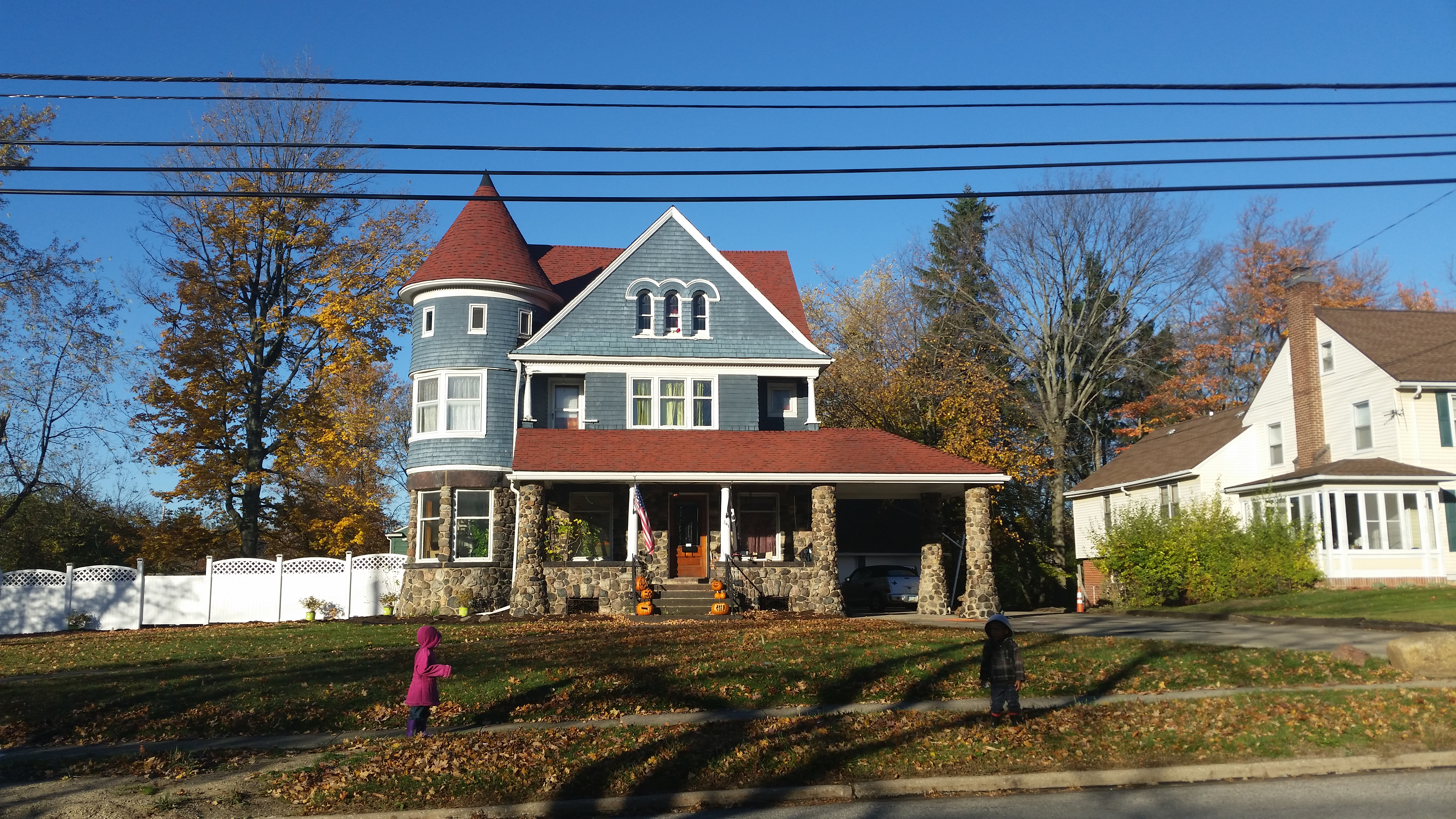 This image is of the Lamson House which is located in Bedford and was designed by architect Sidney Badgley. This picture was taken by Heather Rhoades.